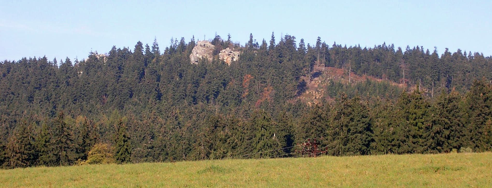 Kořenov-Rejdice (Jablonec nad Nisou District) and Paseky nad Jizerou (Semily District), Liberec Region, the Czech Republic. Bílá skála (White Rock).